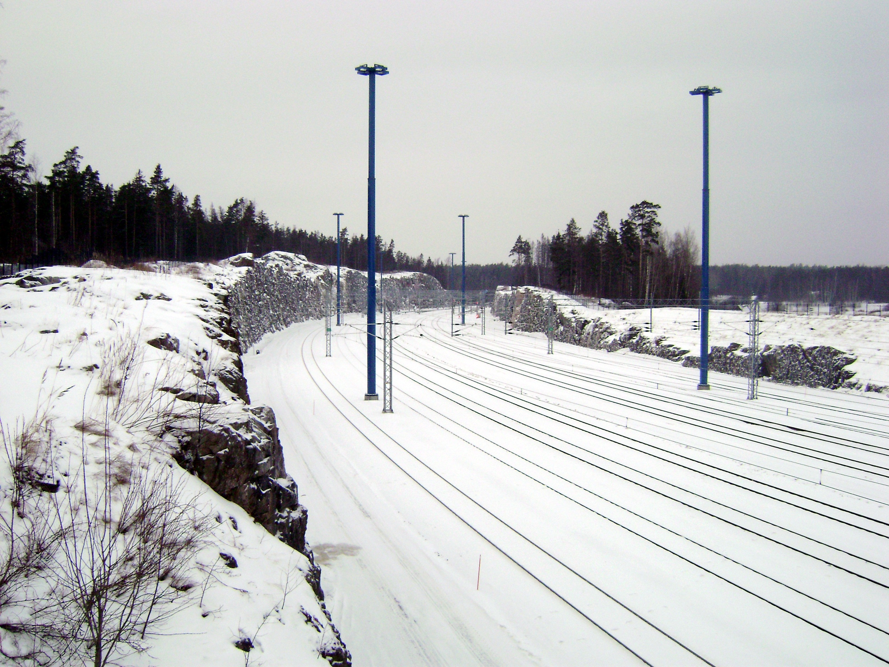 Railyard of Vuosaari Harbour, looking north.